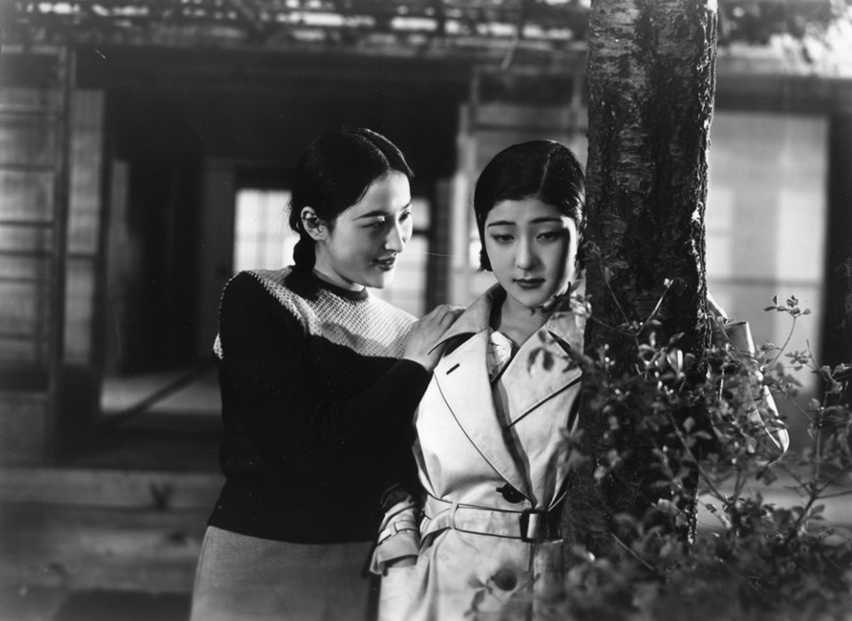 Yumeko Aizome and Yoshiko Okada in Tonari no Yae-chan (1934)